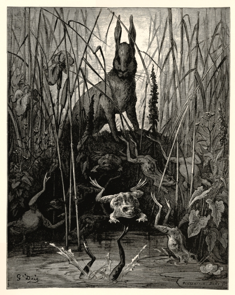 Gustave Doré's 1867 print of La Fontaine's fable of "The Hare and the Frogs" (II.14)